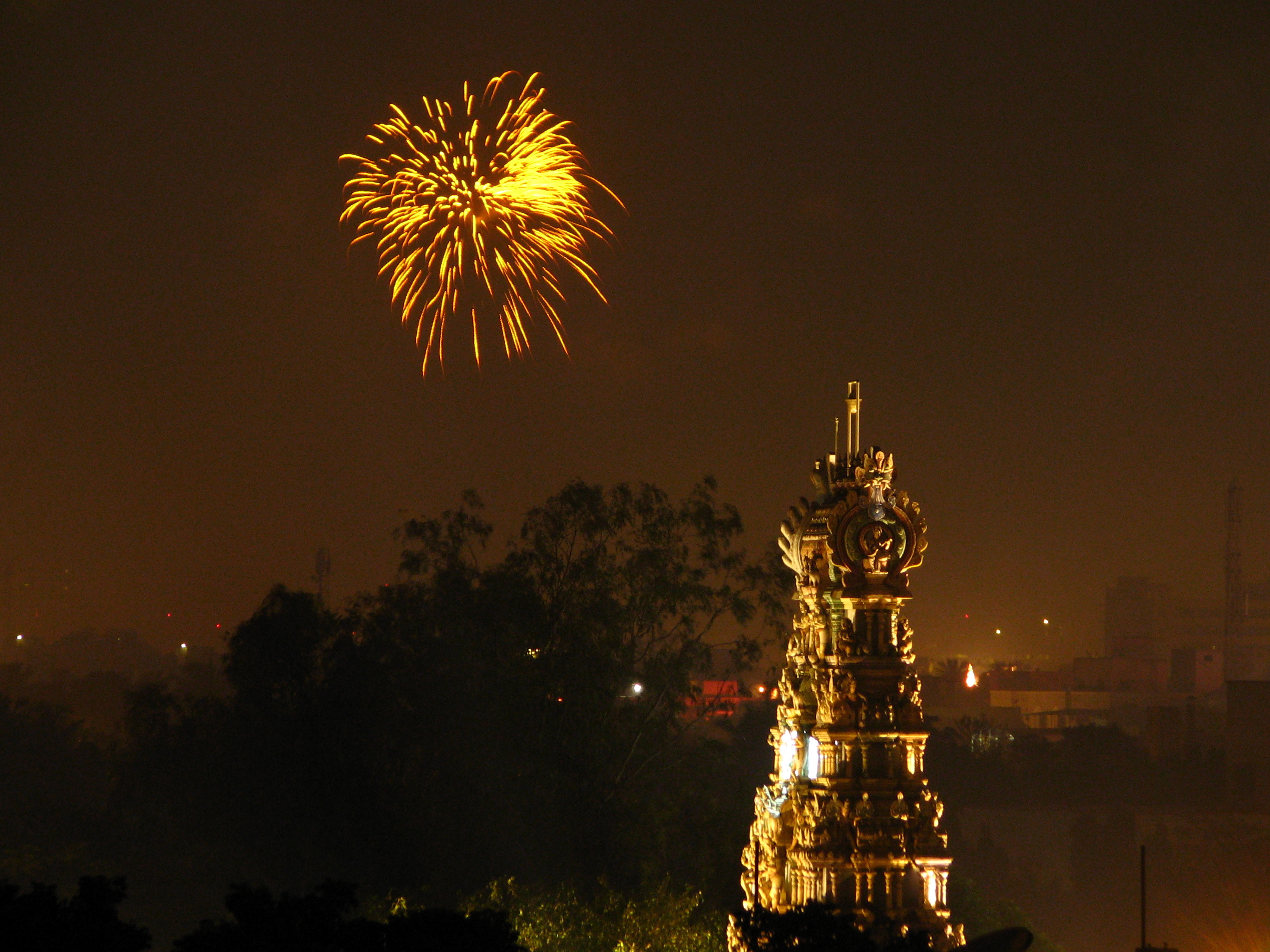 The fireworks really getting going in earnest in 360 degrees from a roftop in Besant Nagar, Chennai during 2009 celebration.